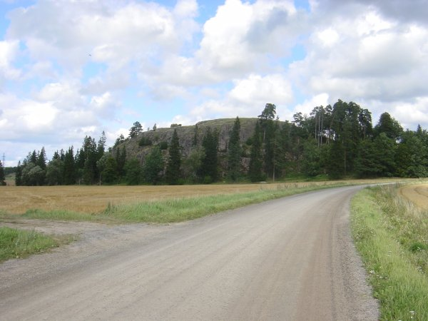 Old castle of Lieto (Finland) in August, 2007. Seen from south. In the front the Häme Oxen Road.